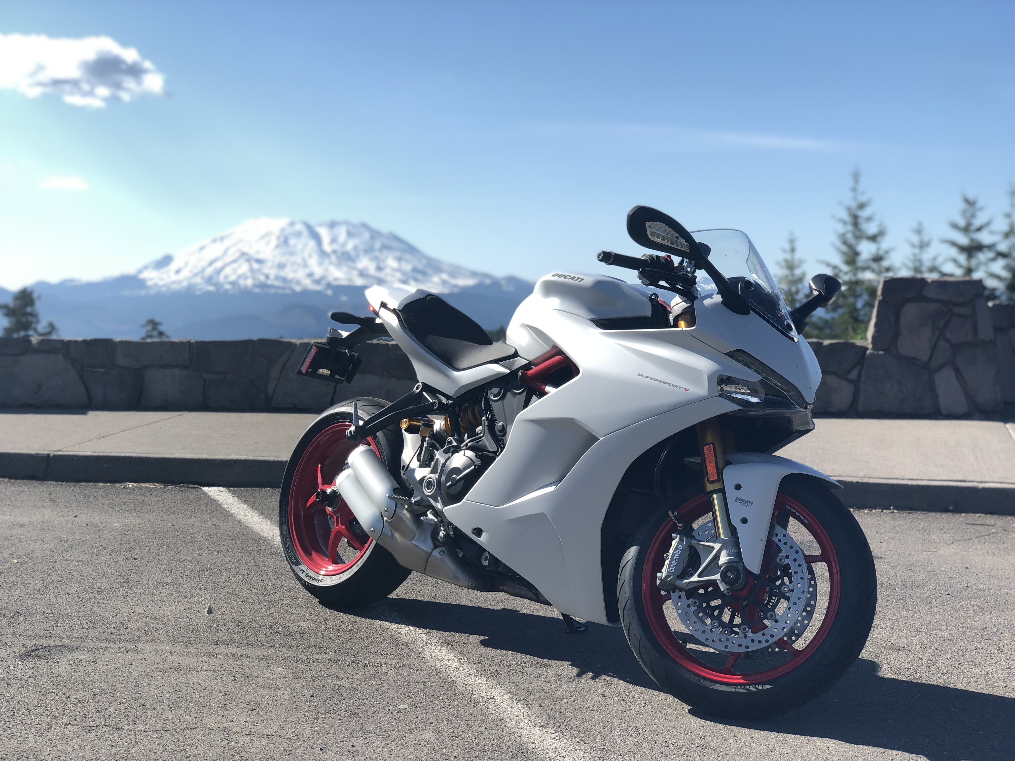 A white/red, stock 2018 Ducati Supersport S in front of Mt. Saint Helens, Washington.